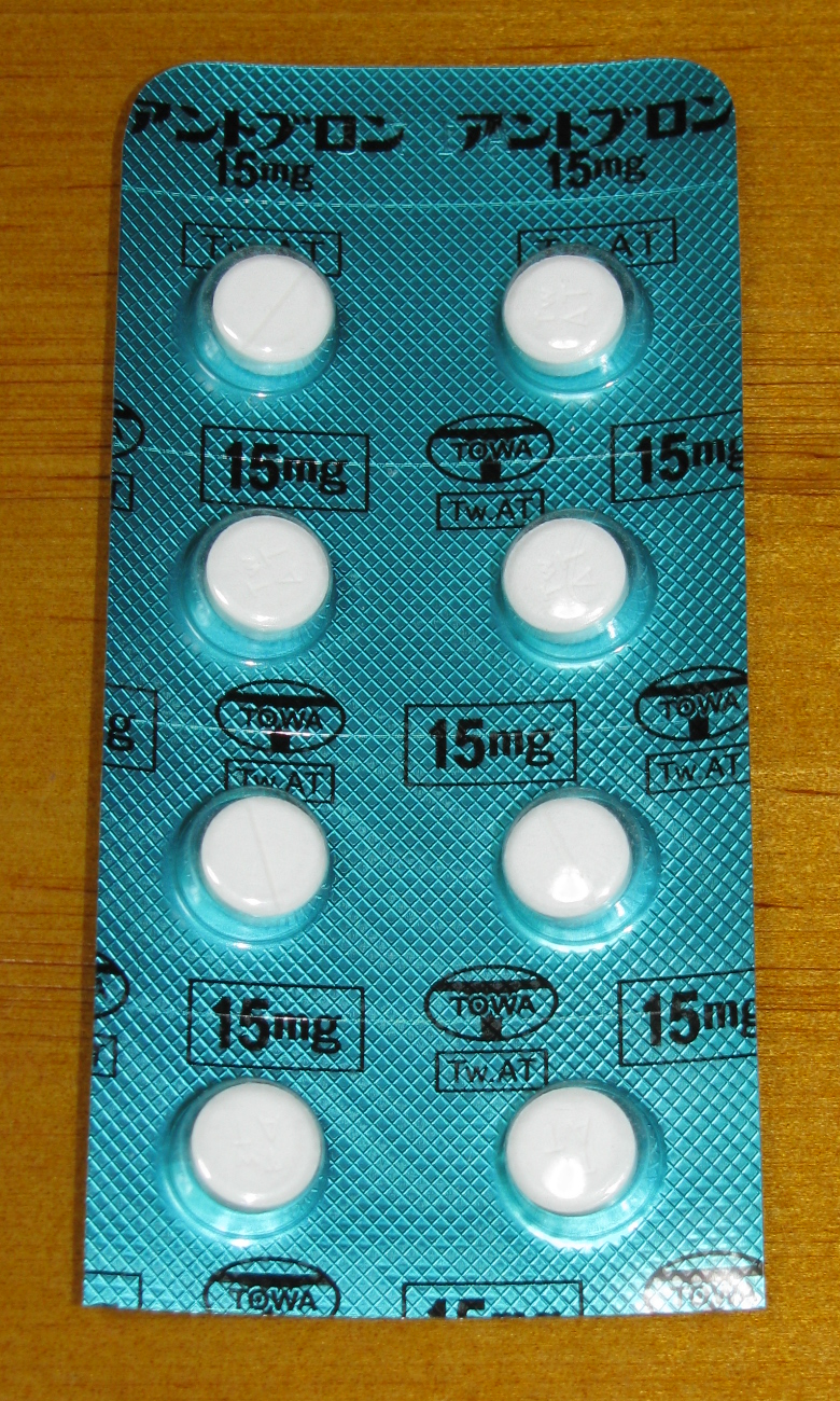 Ambroxol hydrochloride tablets (generic drug) Antbron Tablets 15 mg. Producted by Towa Pharmaceutical Co., Ltd., Osaka, Japan